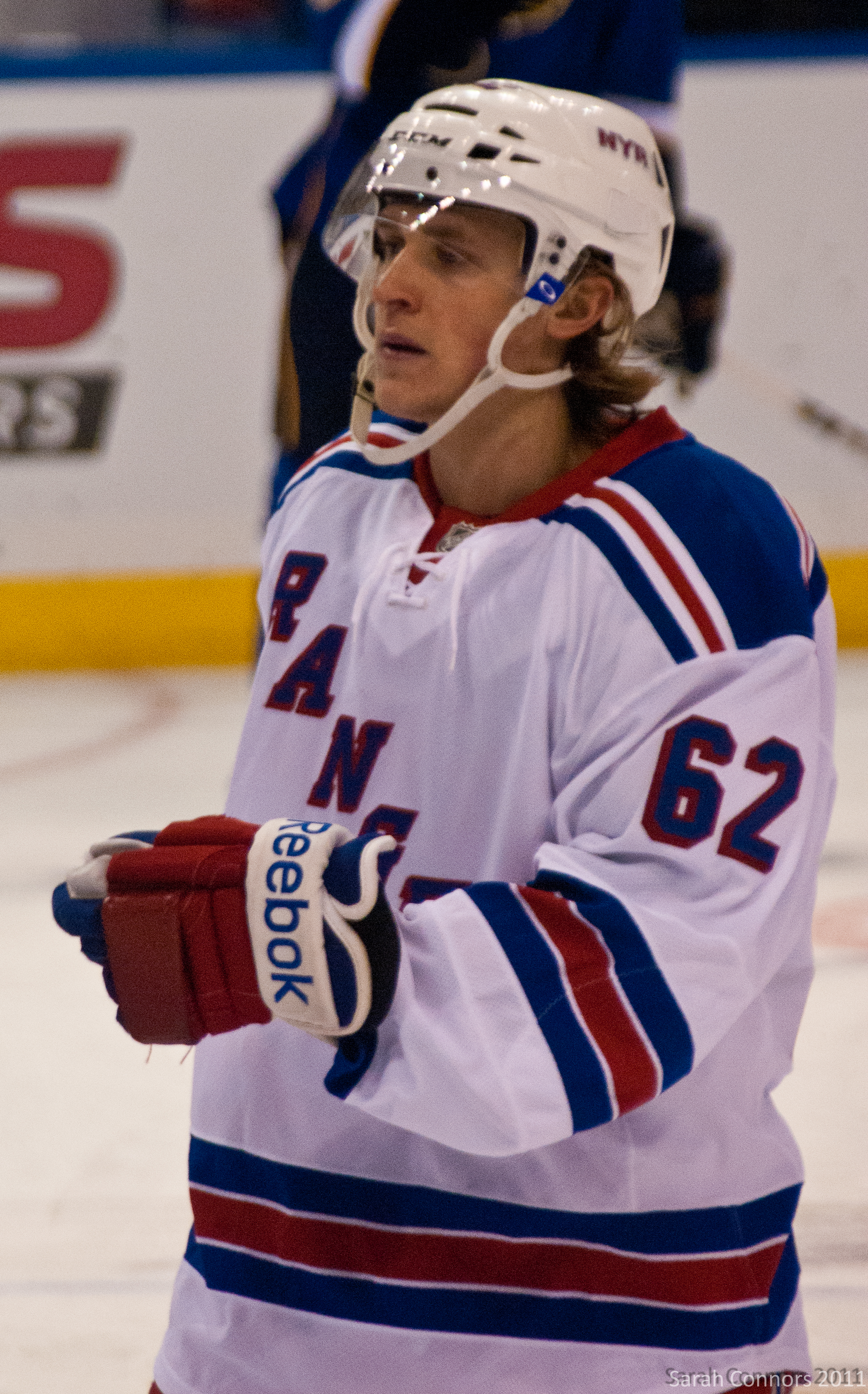 This photo was taken on December 15, 2011 using a Nikon D200.